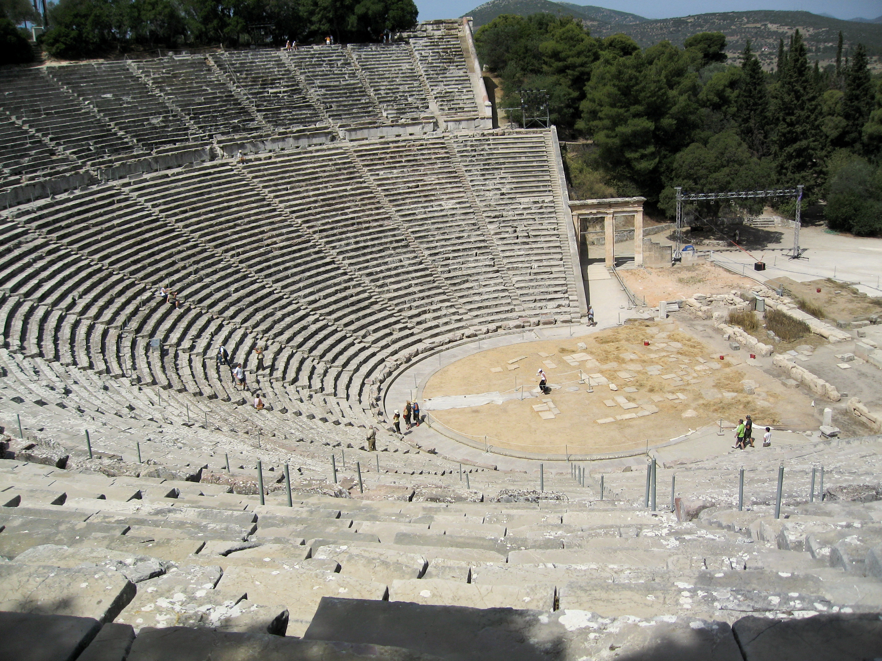 The theater at Epidauros